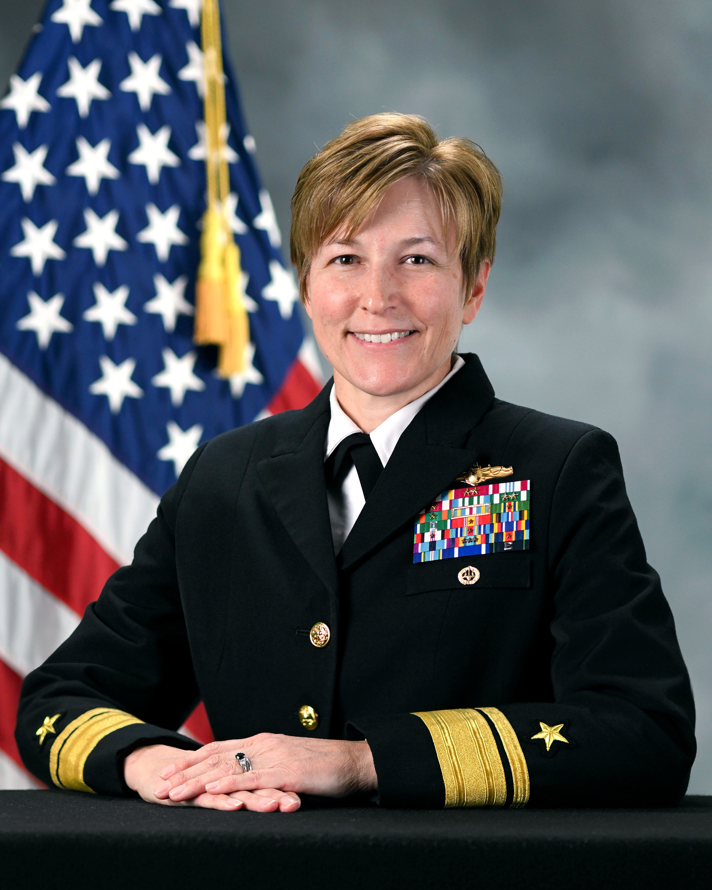 Rear Adm. Kelly A. Aeschbach